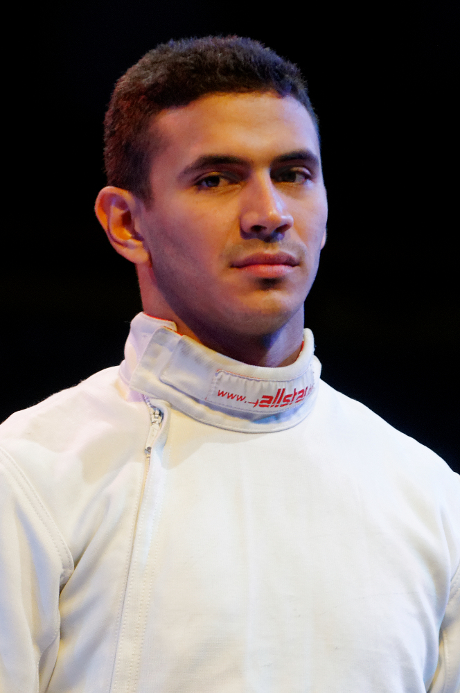 Rubén Limardo during the Masters à l'épée 2012.